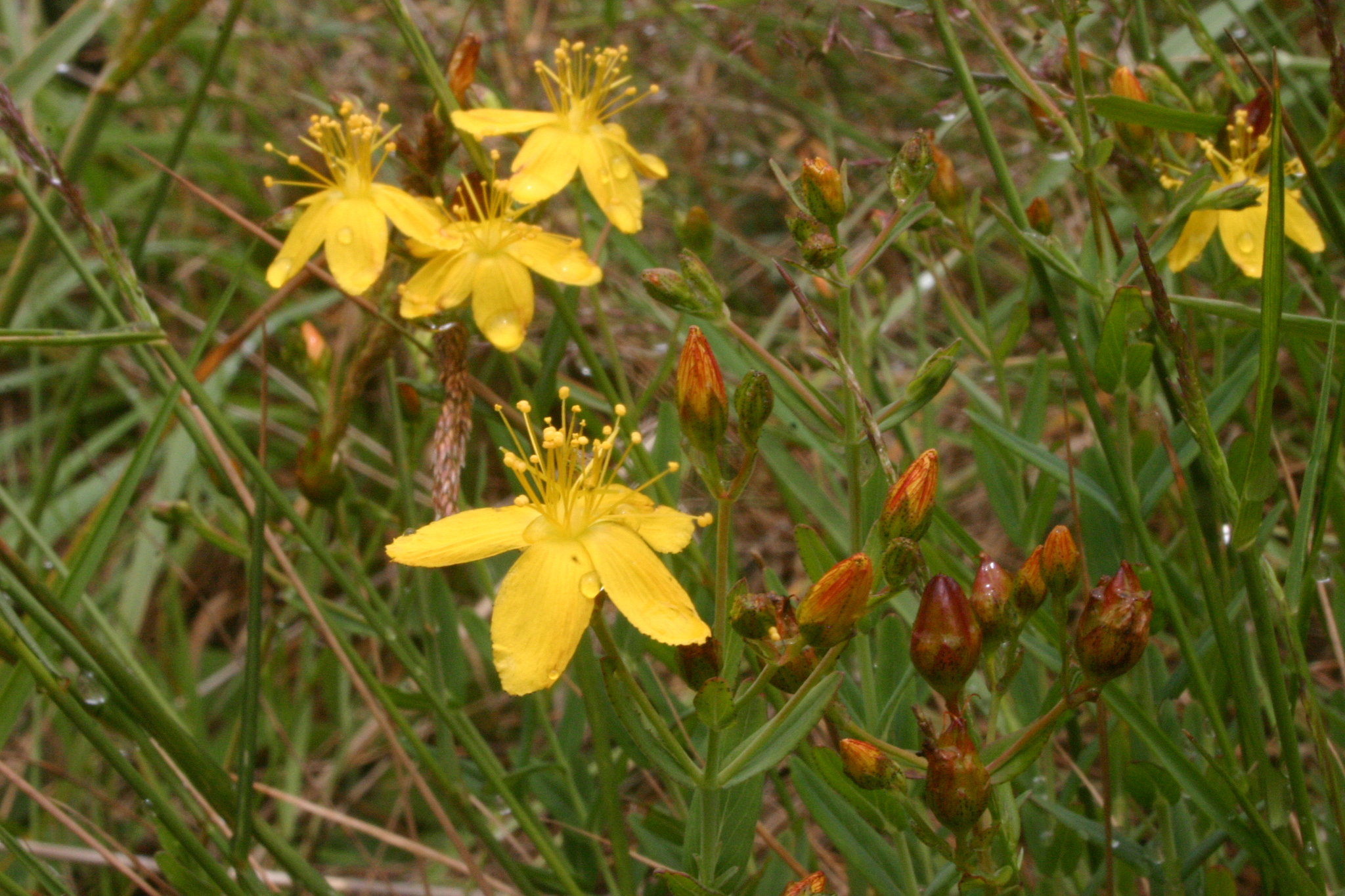 Toadflax-leaved St John's-Wort (Hypericum linariifolium). Species of plant.